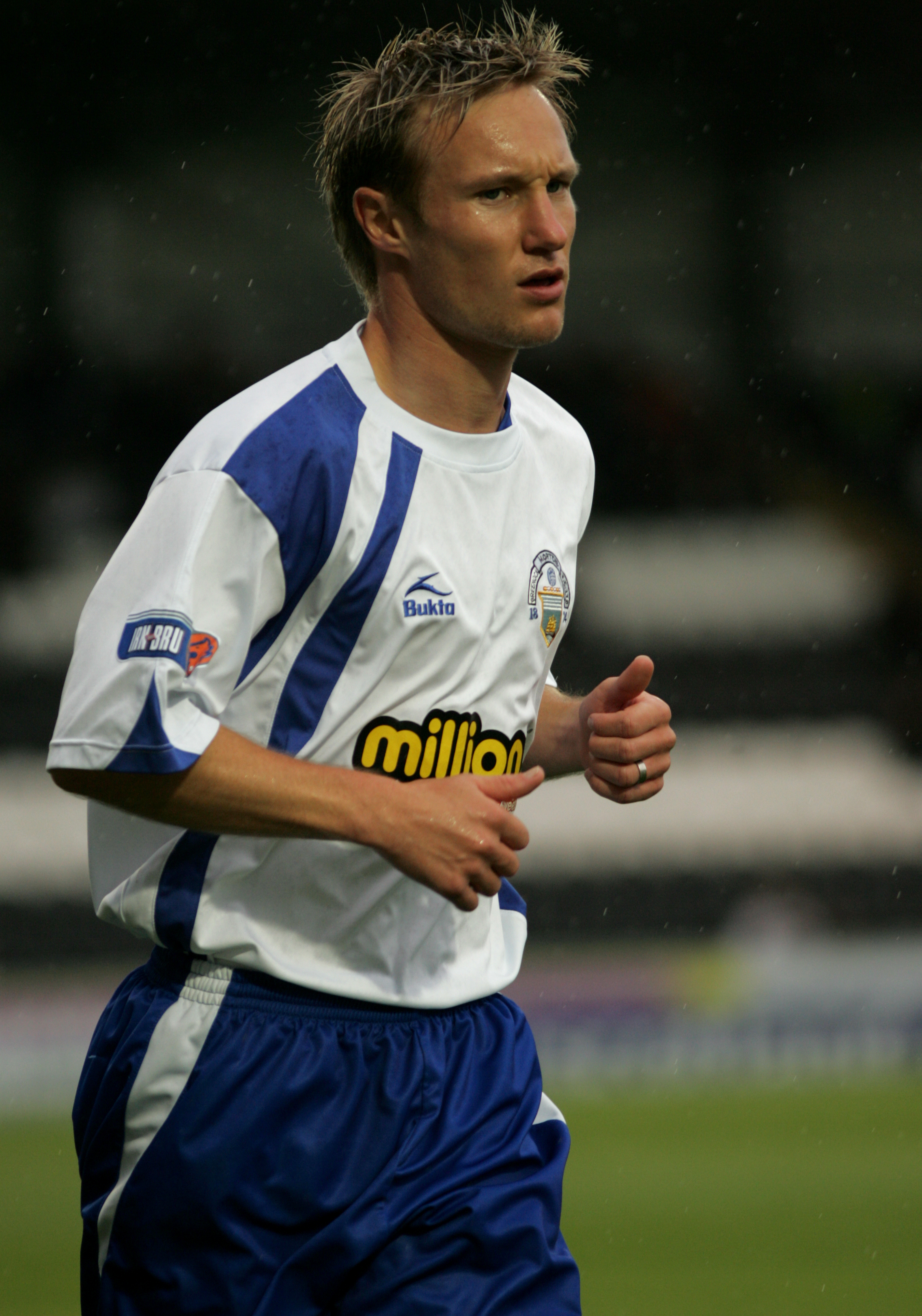 Greenock Morton (1) vs (2) St Mirren - Renfrewshire Cup Final 09'